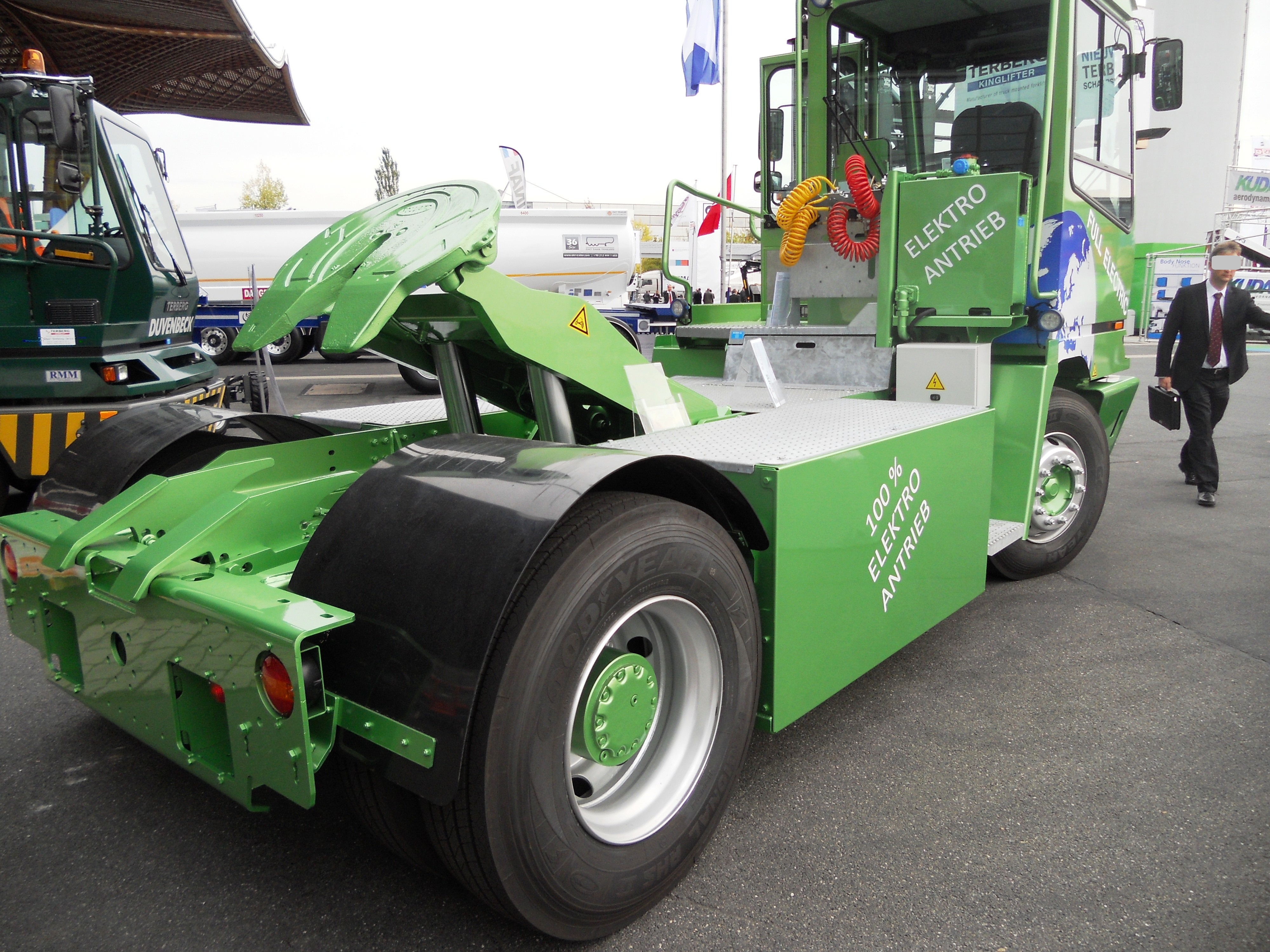 Terberg terminal tractor YT 202-EV 4x2 (electric). Power: 160/180 kW. Capacity of semitrailer-coupling: 34 t. Hydraulic pump with load sensing. Photo taken at exhibition IAA 2012 in Hanover, Germany.